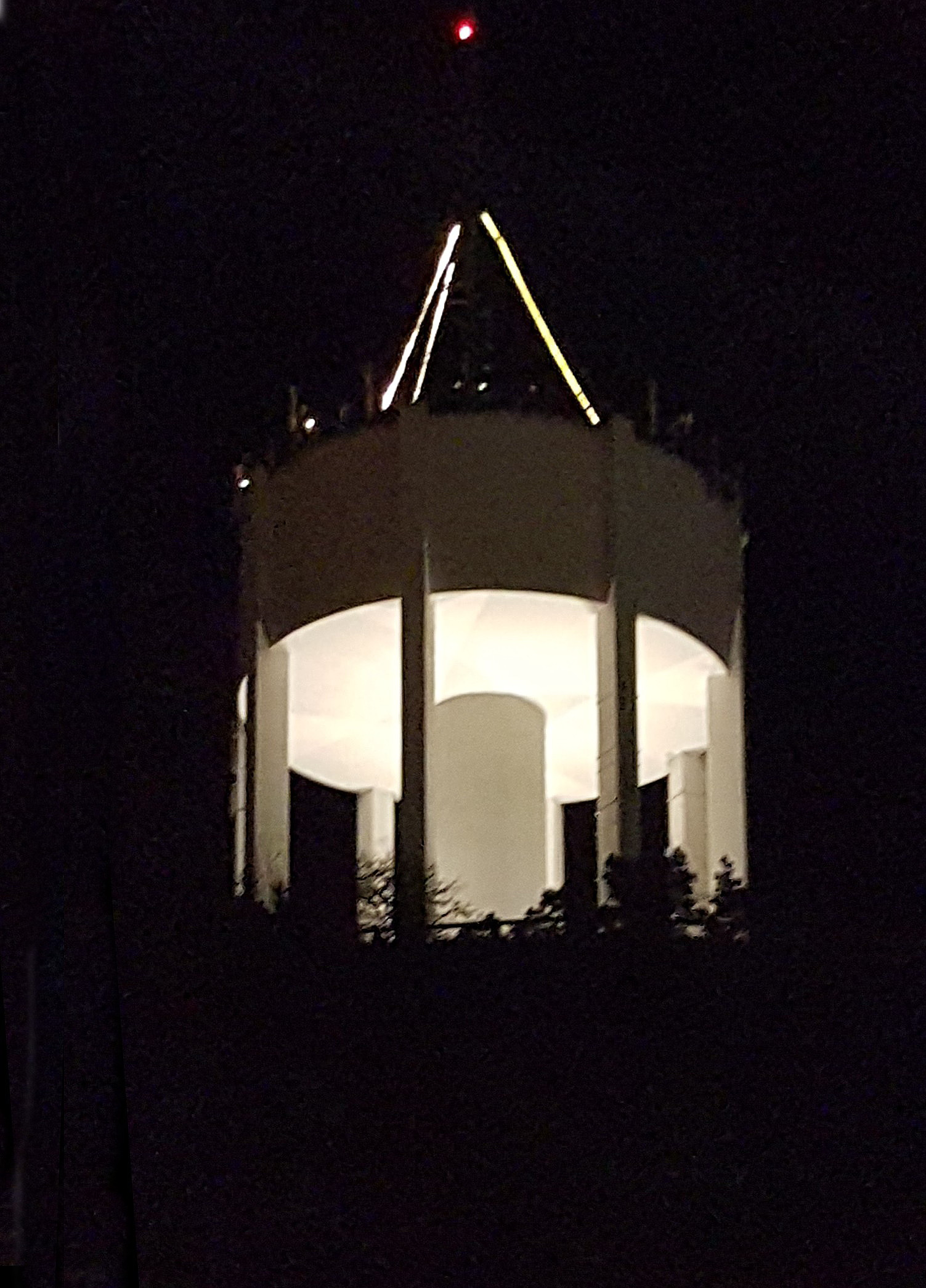 Gustavsberg water tower in the winter night with Christmas decoration